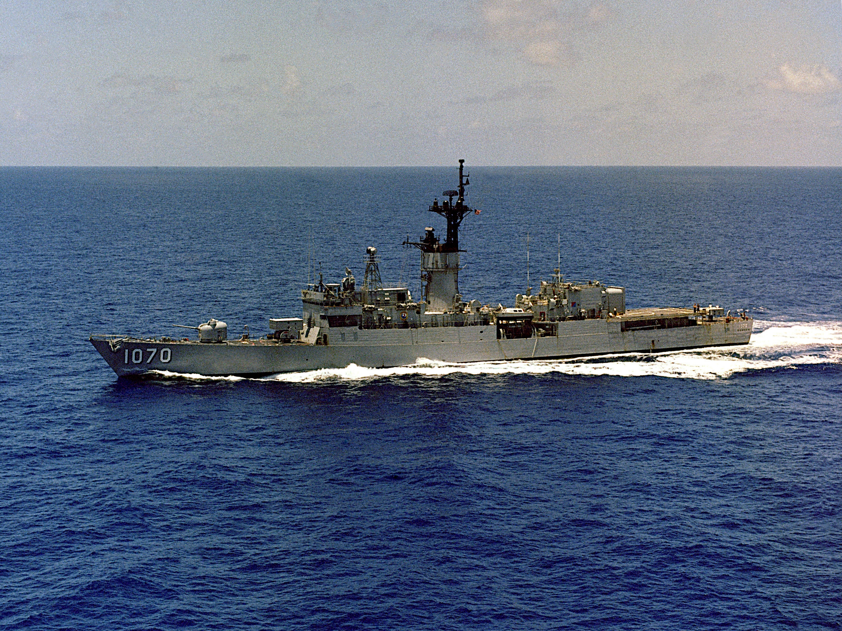 The U.S. Navy frigate USS Downes (FF-1070) underway. In the 1970s, Downes was often used as a test ship. She was the only Knox-class frigate to receive a Mk 29 Improved basic point defense missile system (IBPDMS), able to launch the RIM-7F Sea Sparrow missile. Associated with the Mk 29 launcher was the TAS Mk 23 radar visible on the mack and the Mk 99 illumination radar on the mast above the bridge. The mast on the hangar was originally used for tests with the SPS-58 radar and later carried the SPS-40 radar after it was replaced bs TAS Mk 23 on the mack. In this photo SPS-40 was again replaced by a QE-82C satellite antenna.